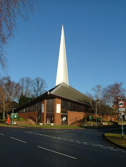 St George's parish church, Letchworth, Hertfordshire, seen from the southwest